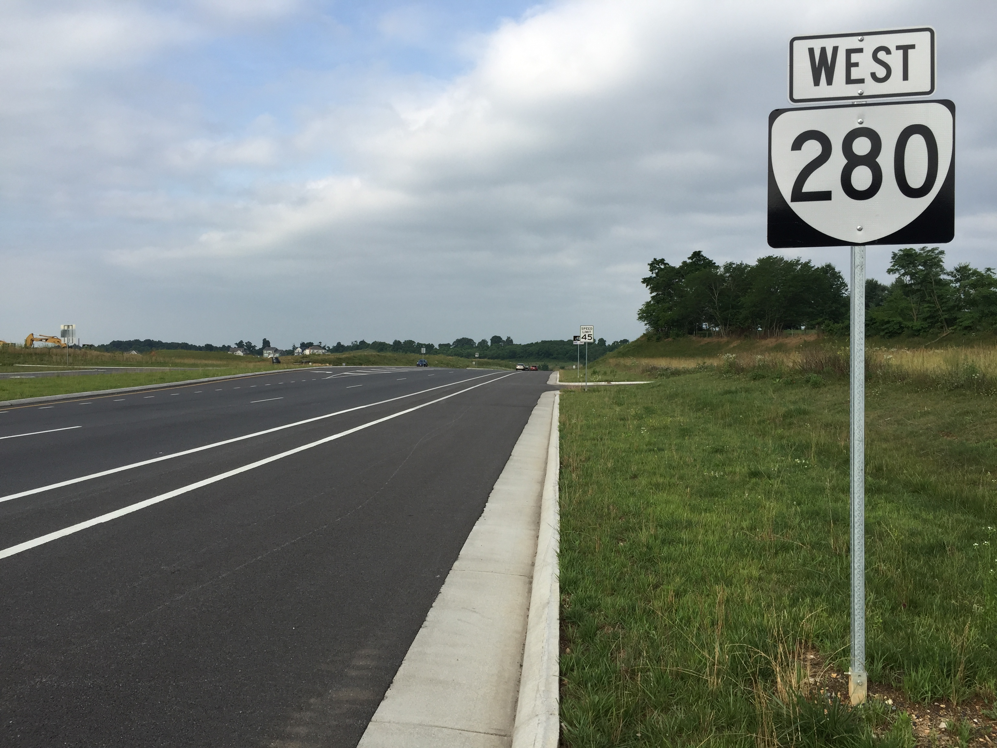 View west along Virginia State Route 280 (Stone Spring Road) at U.S. Route 33 (Spotswood Trail) just southeast of Harrisonburg in Rockingham County, Virginia